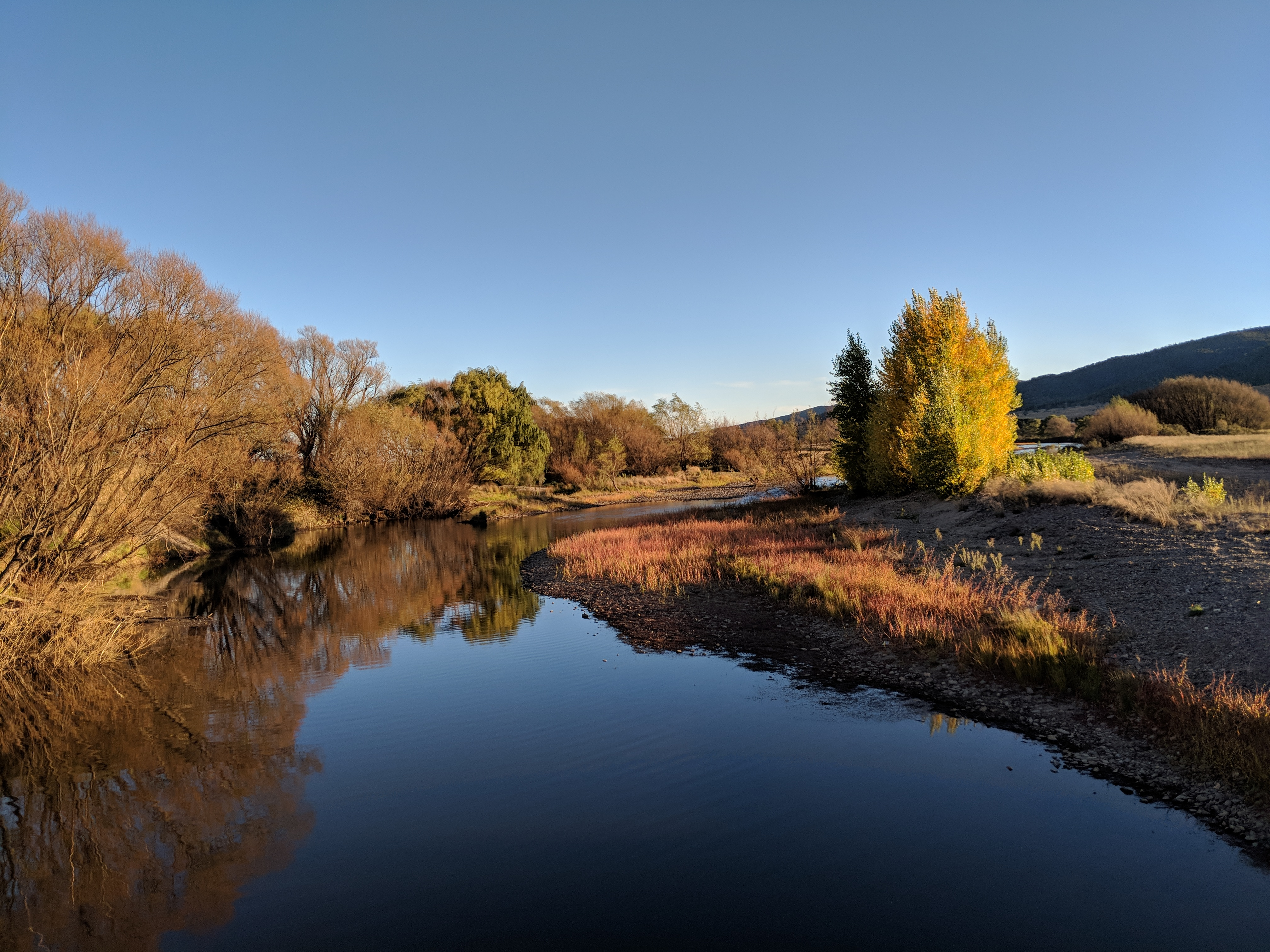 Murrumbidgee River at Billilingra, looking upstream